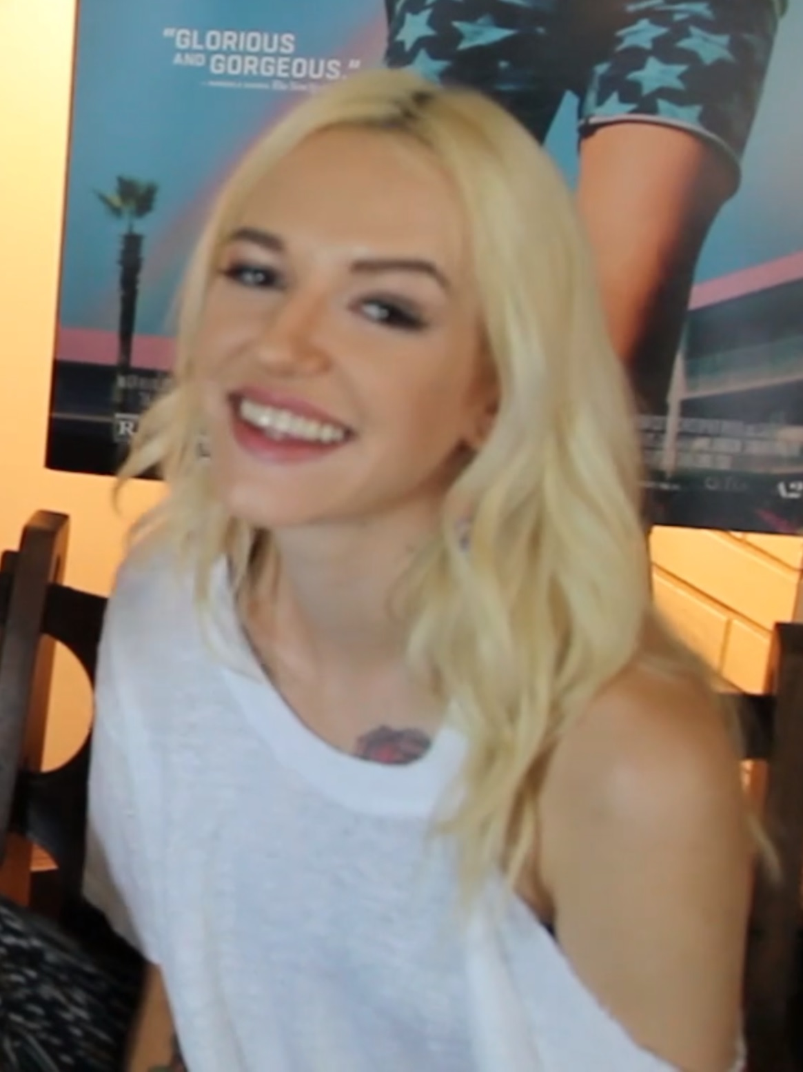 Lithuanian American actress Bria Vinaite talks to "AM FM Magazine" about her film The Florida Project in 2017.